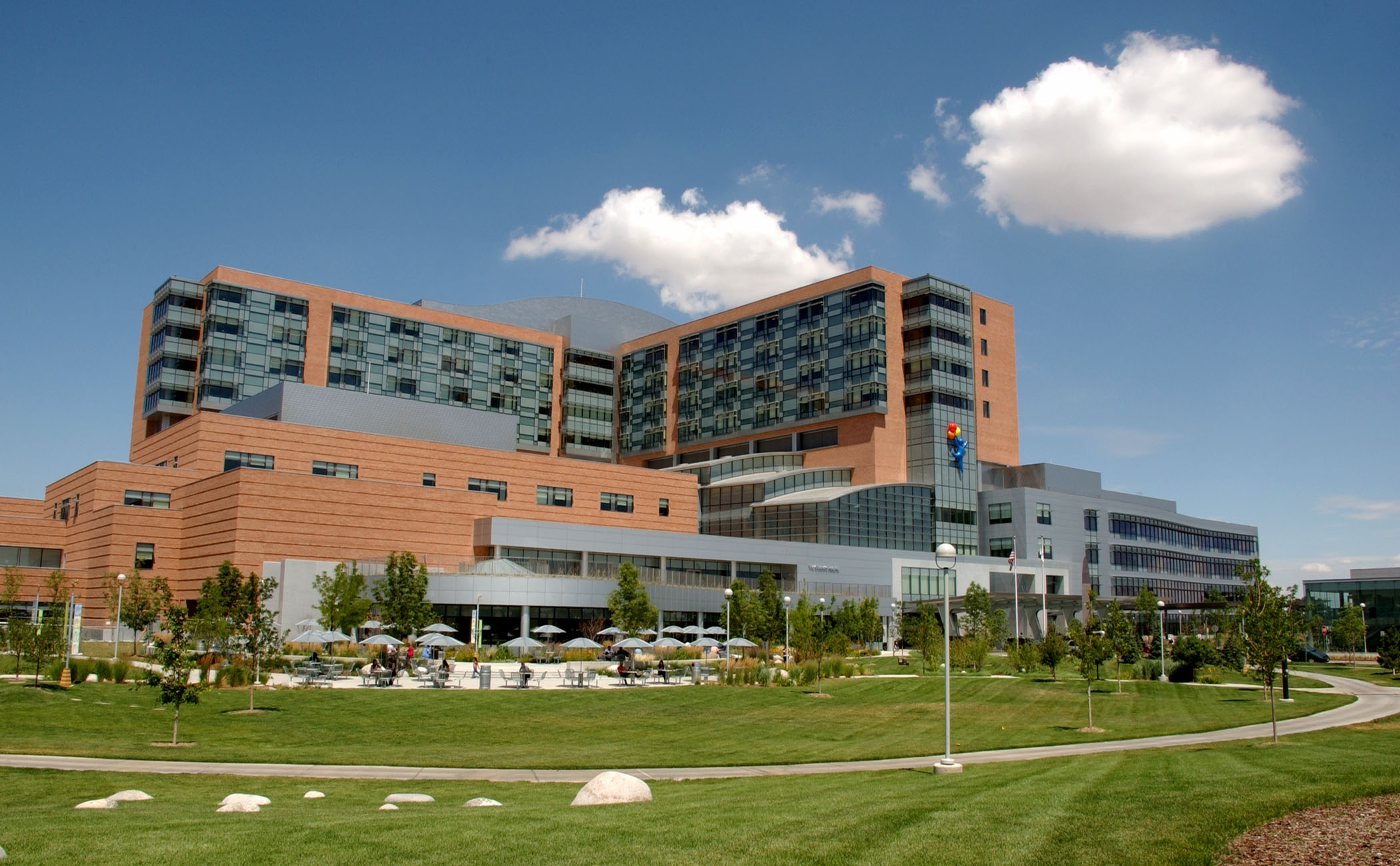 The front of The Childrens Hospital in Denver